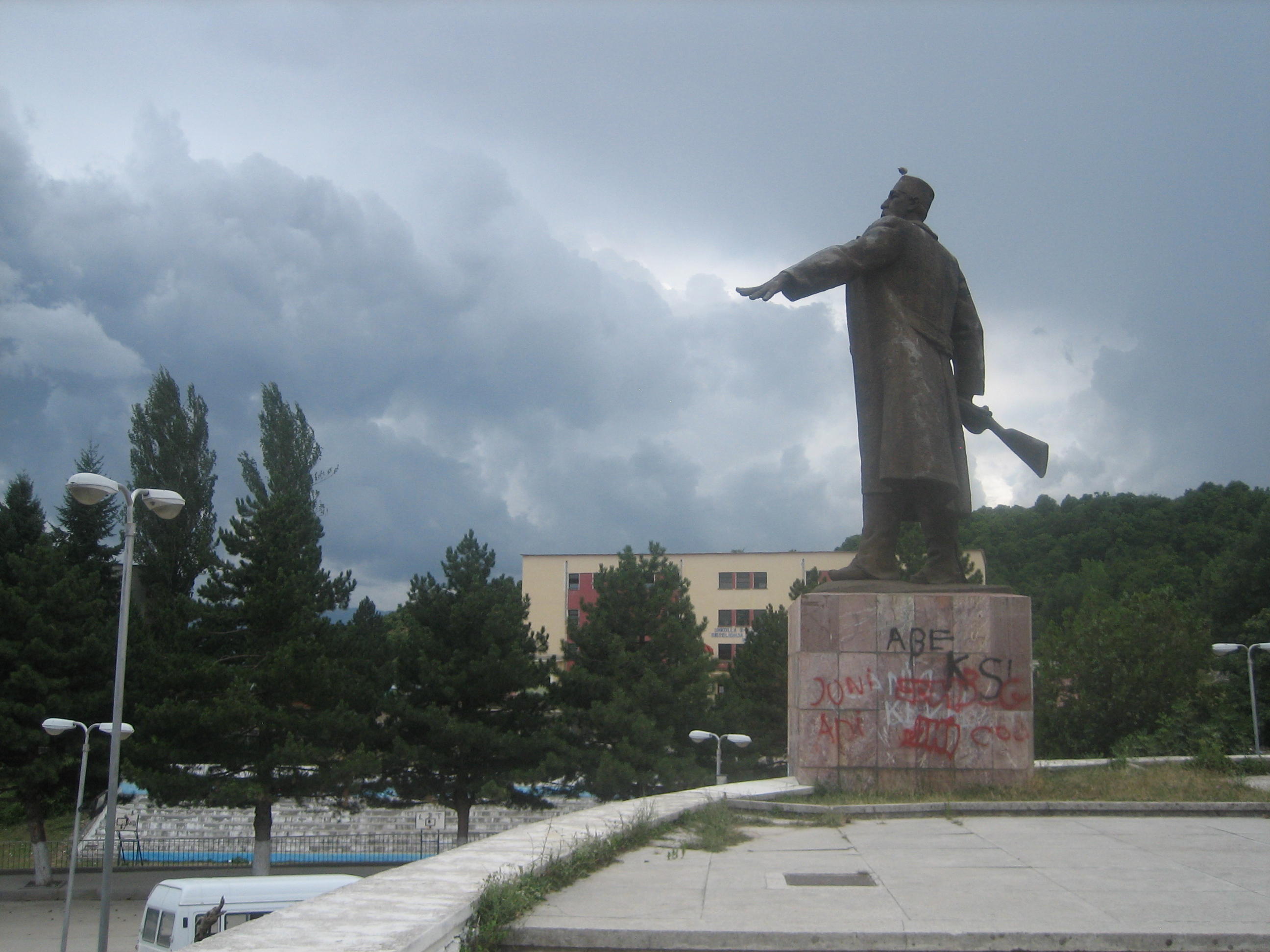 Bajram Curri statue in Bajram Curri, Tropojë District, Kukës County, Albania